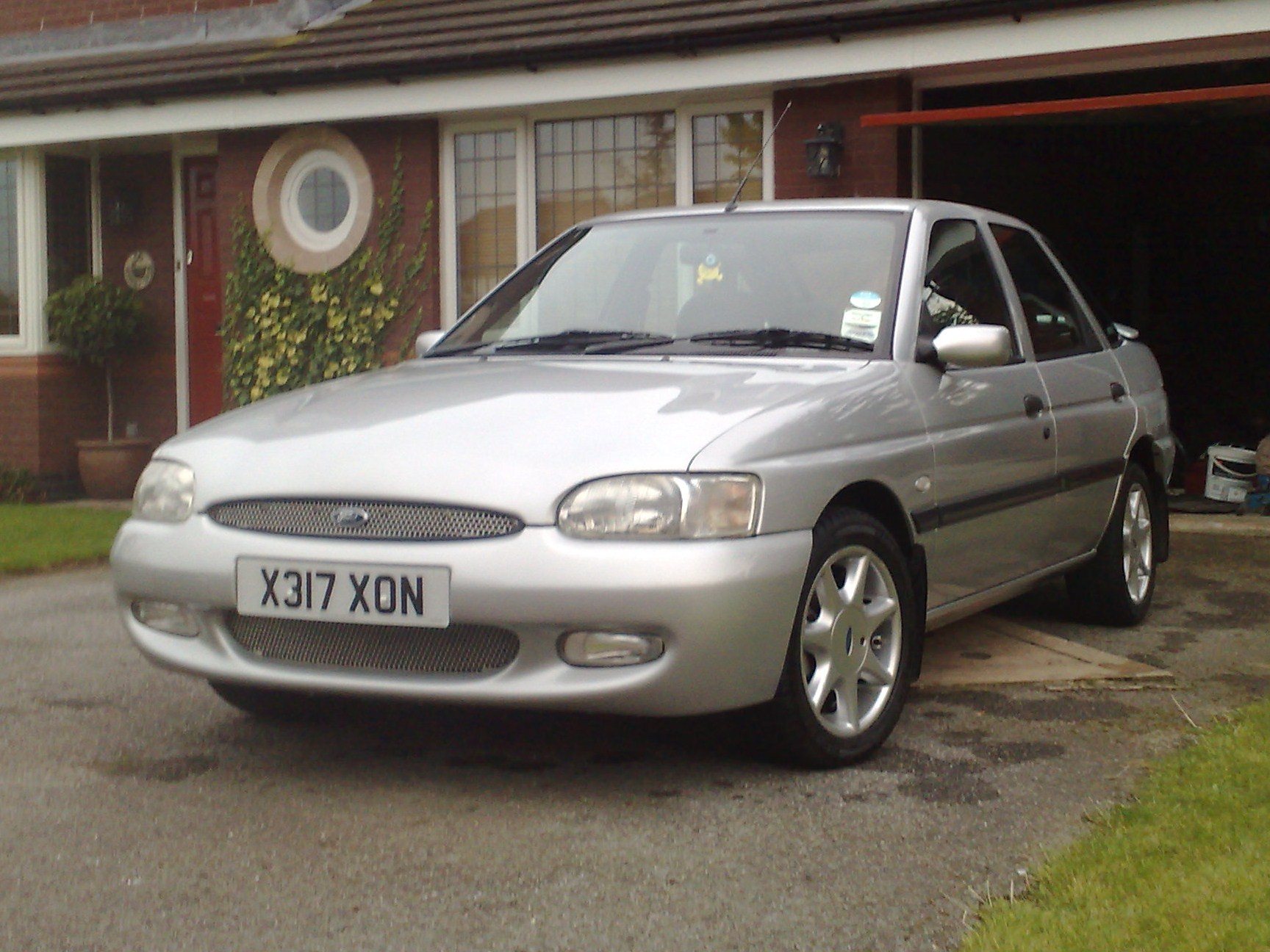 escort mk6